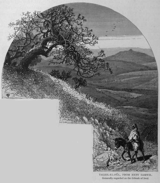 Gibeah 1880